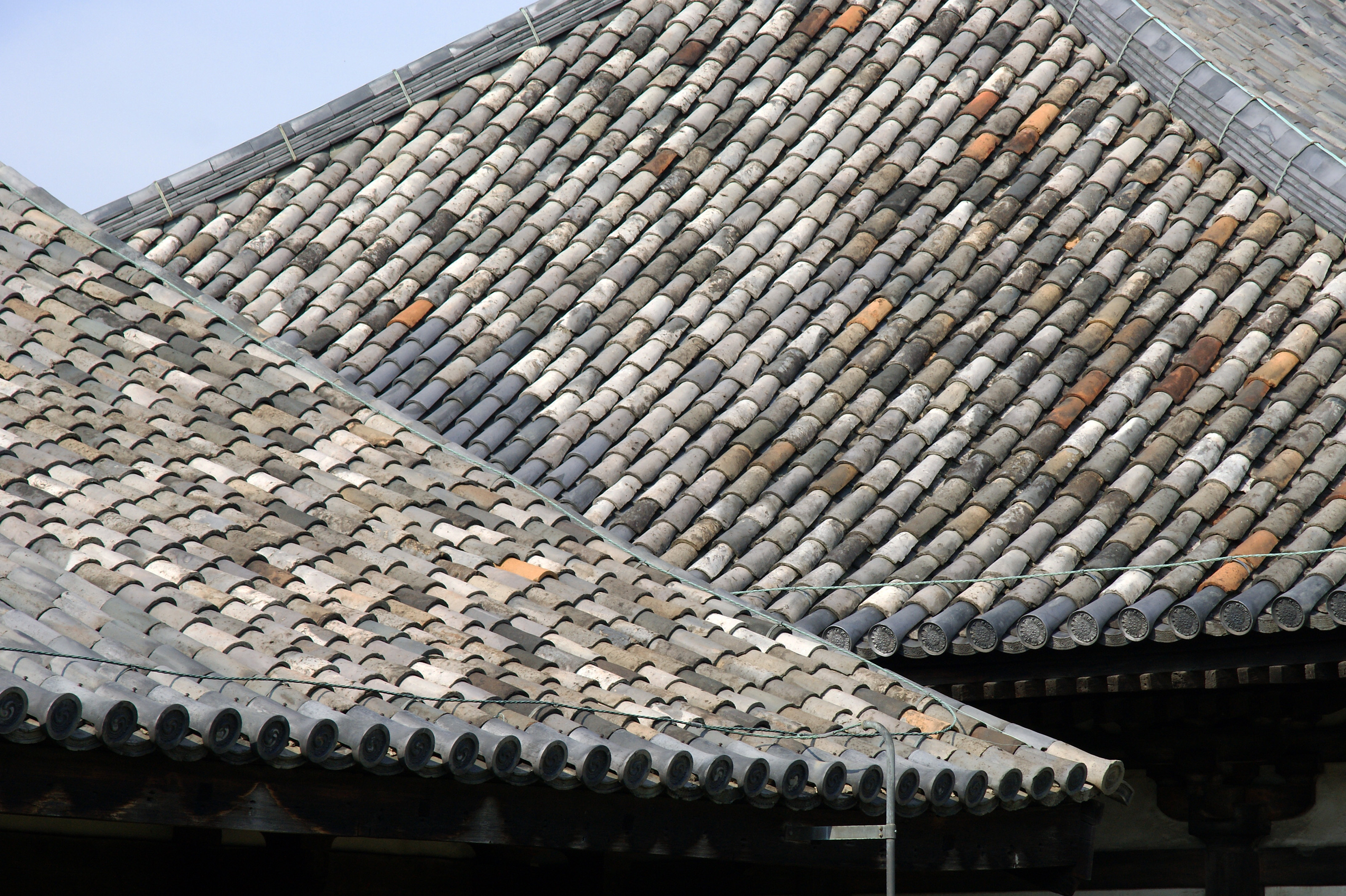 Gangō-ji in Nara, Nara prefecture, Japan